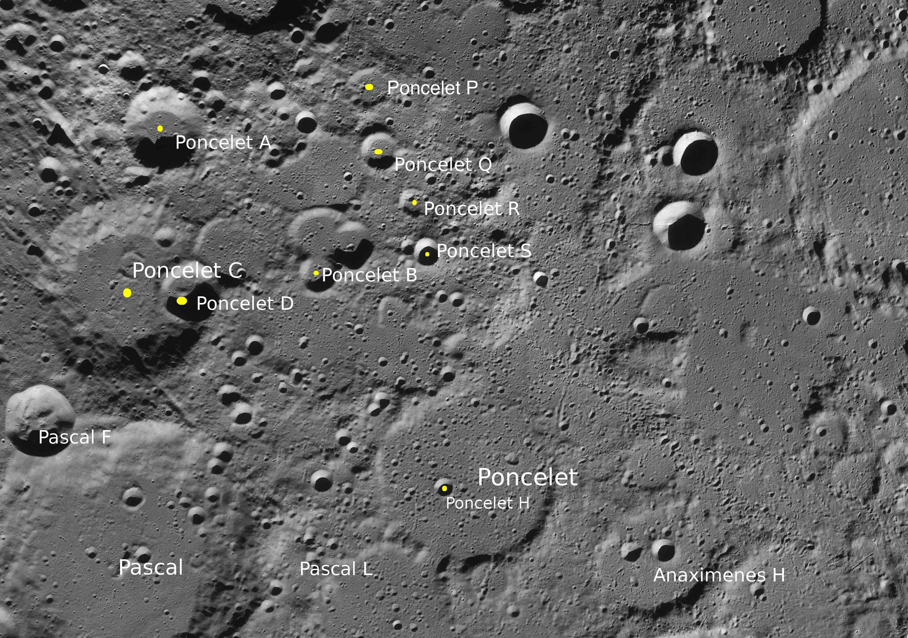 LROC image used for the presentation